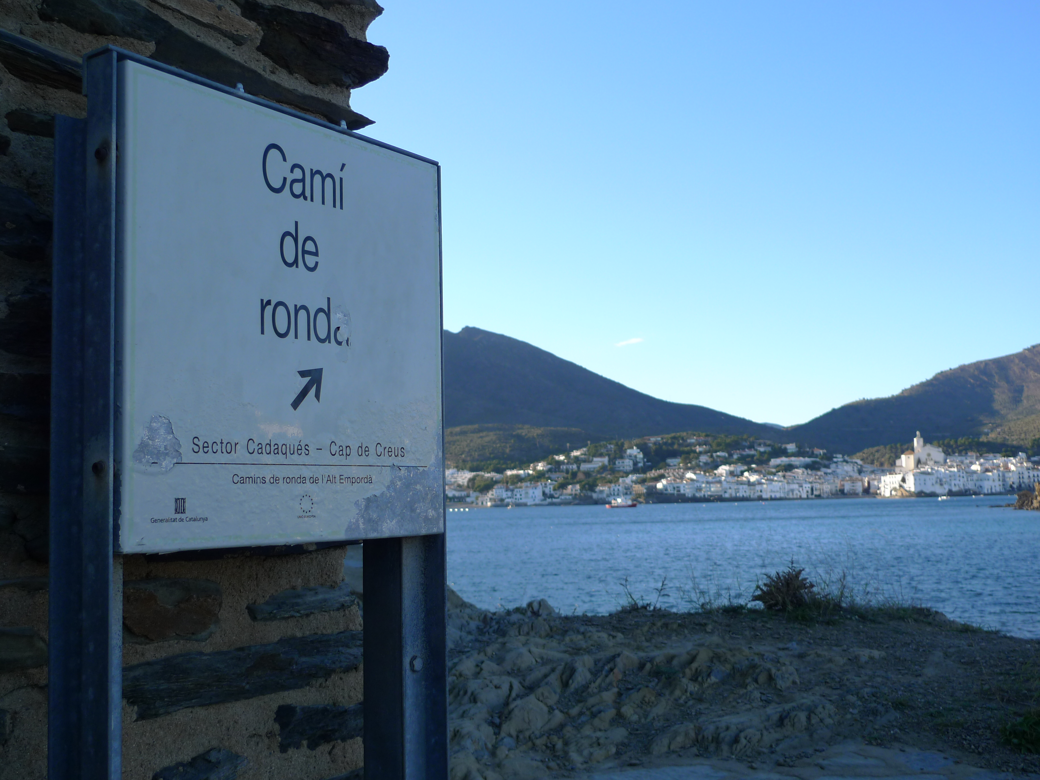 Signpost of "Camí de Ronda" in Cadaqués